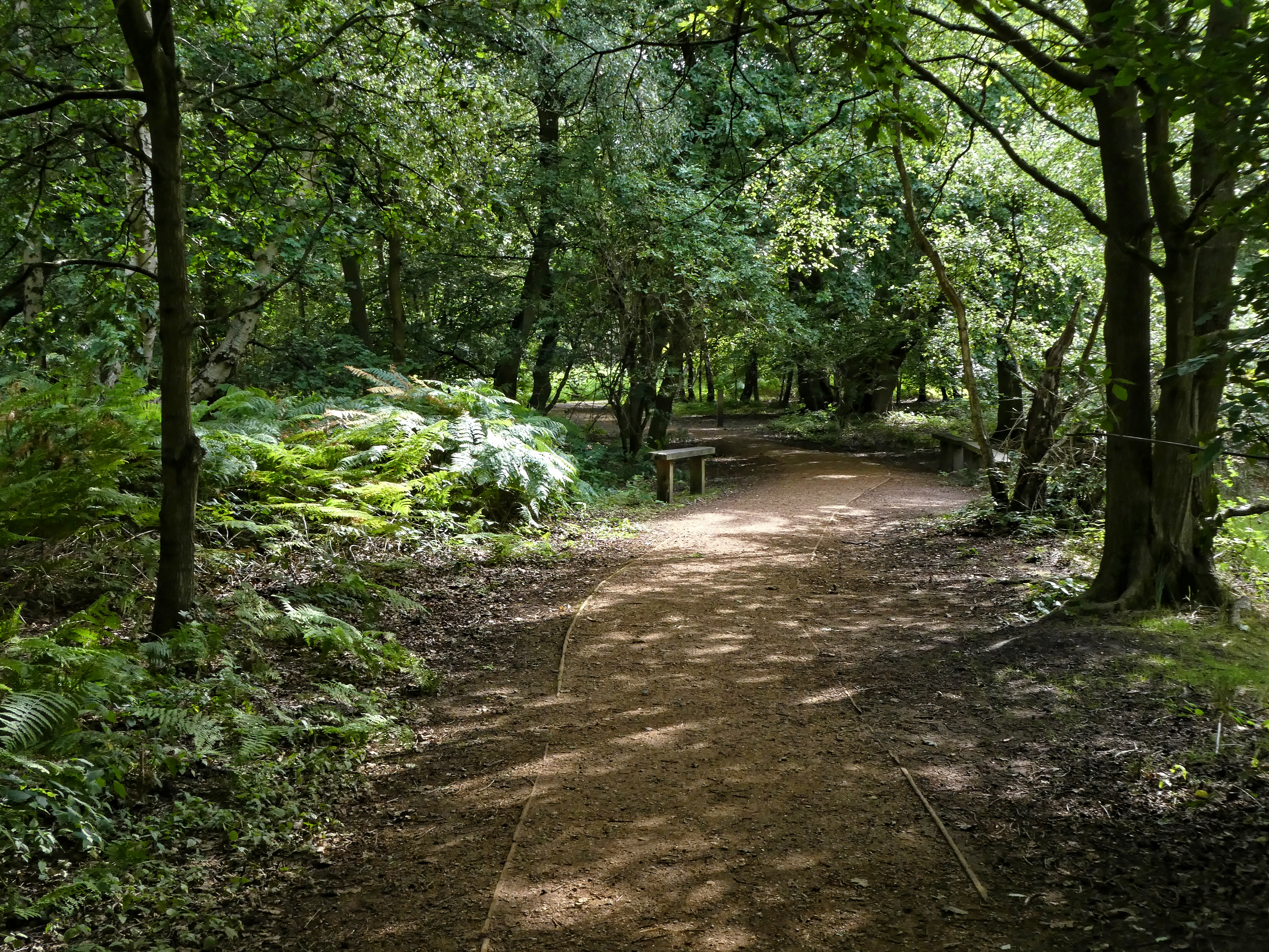 Easy access path and wheelchair trail adjacent to Epping Forest Visitor Centre in High Beach (alternatively High Beech) in Epping Forest and the parish of Waltham Abbey, Essex, England.Mobile device view: Wikimedia (at August 2019) makes it difficult to immediately view photo groups related to this image. To see its most relevant allied photos, click on Epping Forest, High Beach, and this uploader's Trees and Paths photos. You can add a beta click-through 'categories' button to the very bottom of photo-pages you view by going to settings... three-bar icon top left.Desktop view: Wikimedia (at August 2019) makes it difficult to immediately view the helpful category links where you can find images related to this one in a variety of ways; for these go to the very bottom of the page.This image is one of a series of date and/or subject allied consecutive photographs kept in progression or location by file name number and/or time marking. Camera: Panasonic Lumix DMC-TZ90.Software: File lens-corrected, optimized, perhaps cropped, with DxO PhotoLab 2 Elite, and likely further optimized with Adobe Photoshop CS2.